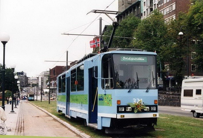 Oslo Sporveier SM90 in RådhusgataNorsk bokmål: Oslo Sporveier. Trikk motorvogn 321 type SM90 (Tatravogn fra Tsjekkia), ex vogn 200, blomster- og flaggprydet partytrikk i Rådhusgata.